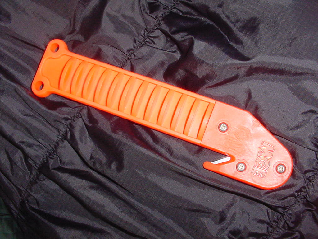 Scuba diver's net cutter. 7 inches long.